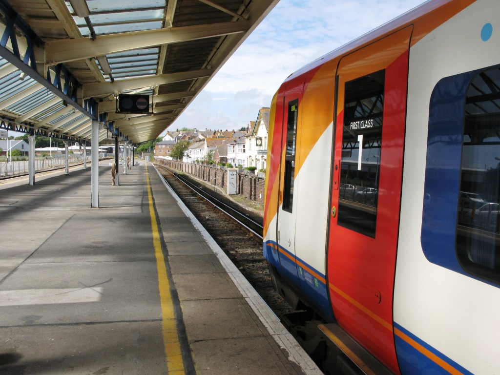 South West Train's 444024 waits at Weymouth station in Dorset ready to return to London Waterloo.